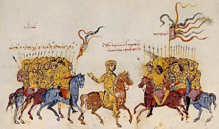 Thomas the Slav negotiates with the Arabs during his revolt against Michael II the Amorian